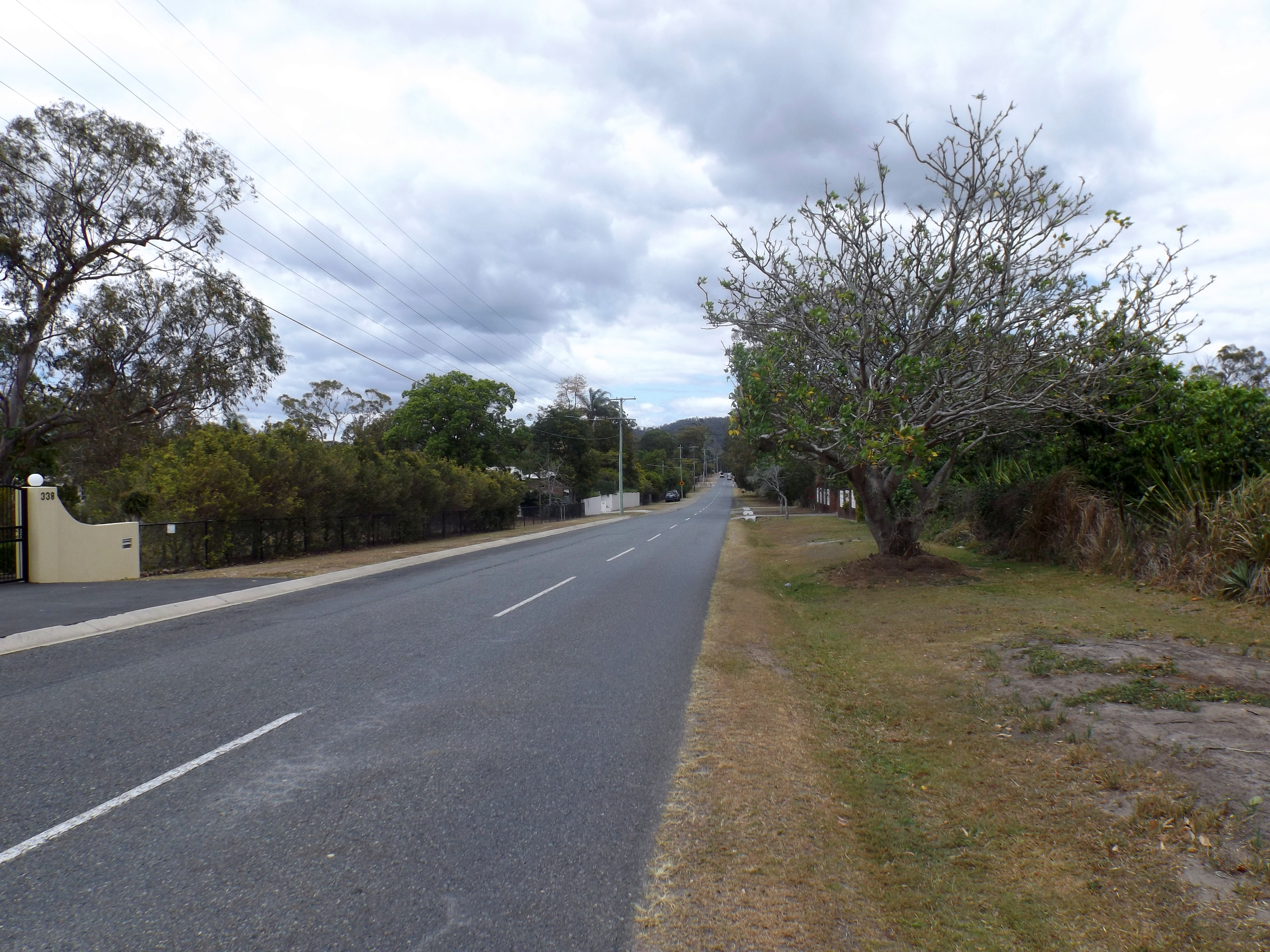 Photo of Stanbrough Road at Belmont in Brisbane, Queensland, Australia.